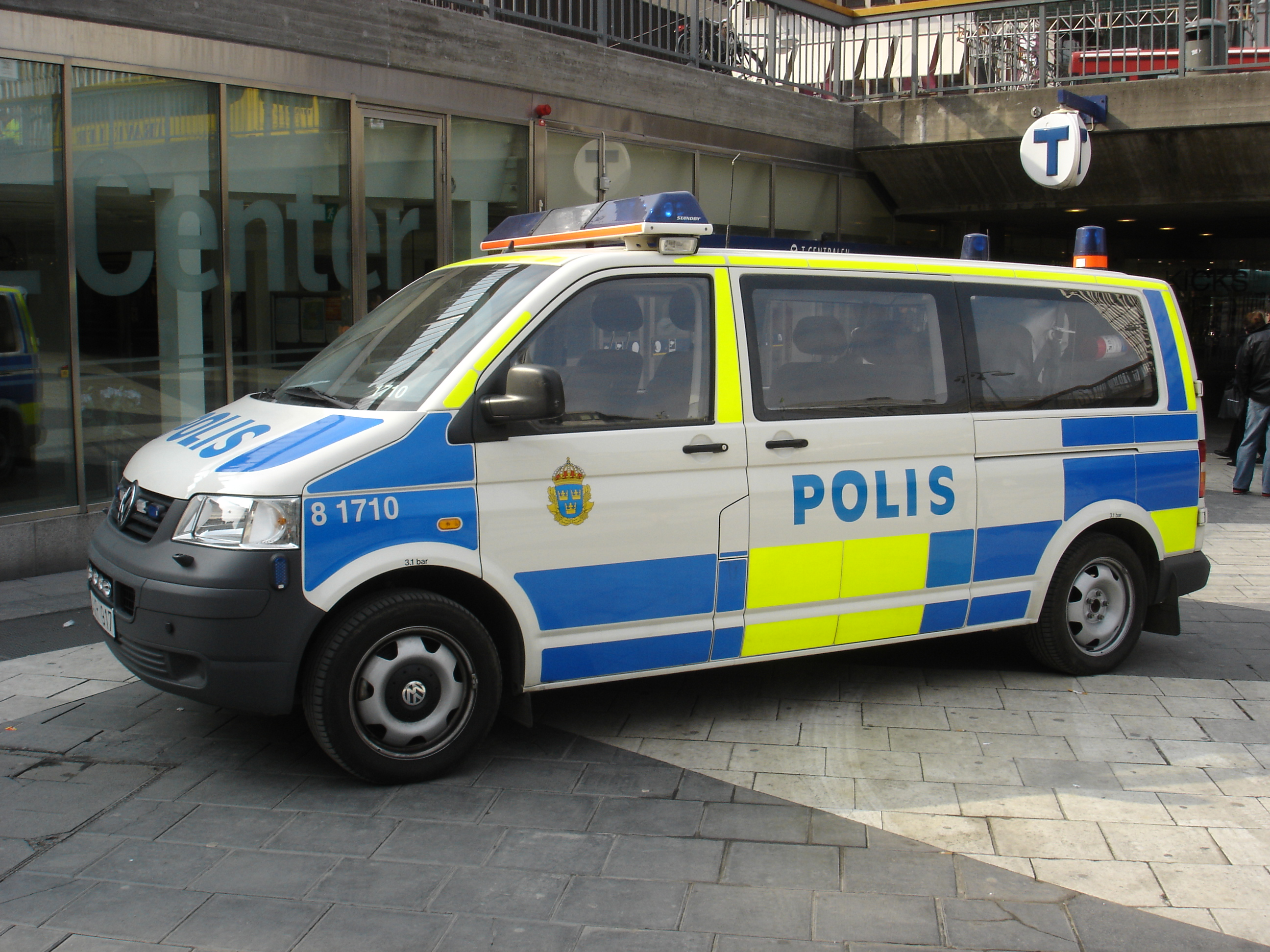 A Swedish police car at Sergels Torg in Stockholm.